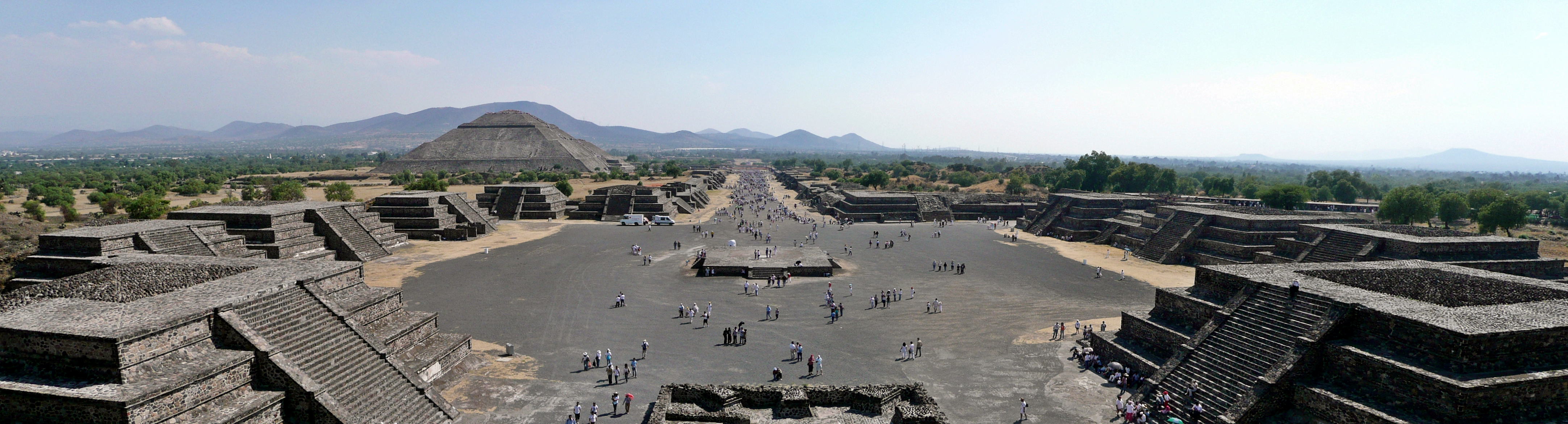 Teotihuacan, Mexico